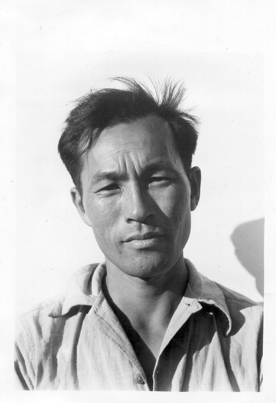 Title: Manzanar, Calif.--Karl Yoneda, Block Leader at this War Relocation Authority center for evacuees of Japanese ancestry. He is married to a Caucasian and they have a child four years old. The family are spending the duration at this center. Former occupation: Longshoreman. -- Photographer: Lange, Dorothea -- Manzanar, California. 7/3/42 Identifier: Volume 21 Identifier: Section C Identifier: WRA no. C-711 Collection: War Relocation Authority Photographs of Japanese-American Evacuation and Resettlement Series 8: Manzanar Relocation Center (Manzanar, CA) Contributing Institution: The Bancroft Library. University of California, Berkeley.